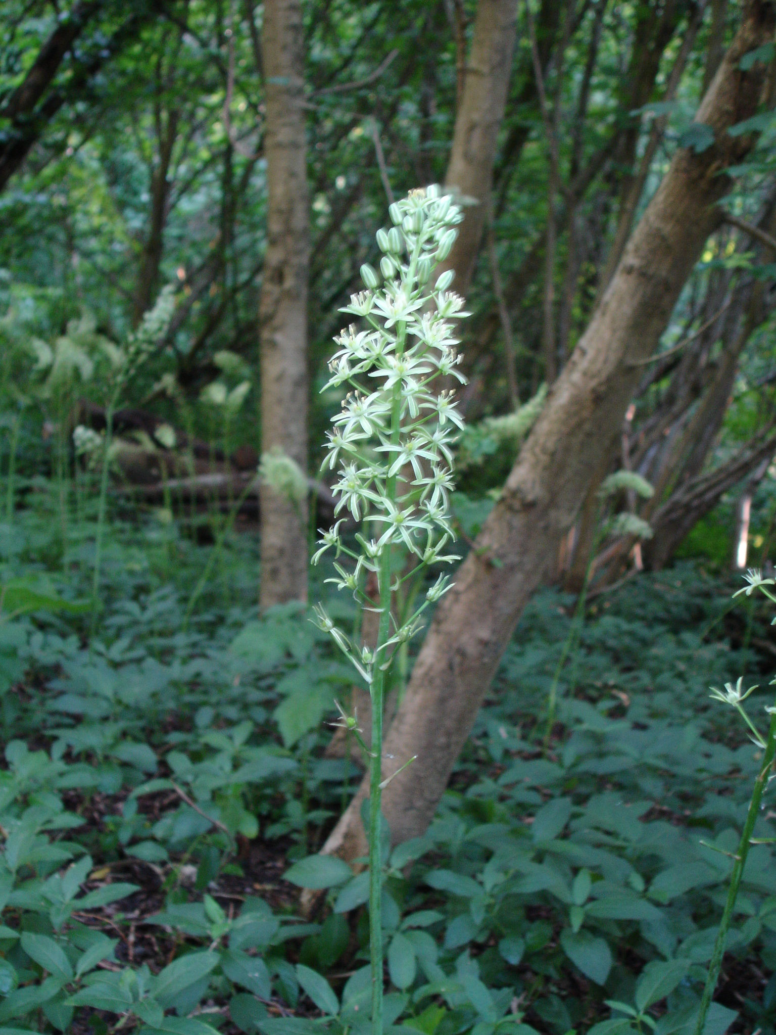 Flowering Bath asparagus - photograph taken in Clout's Wood, Wroughton.